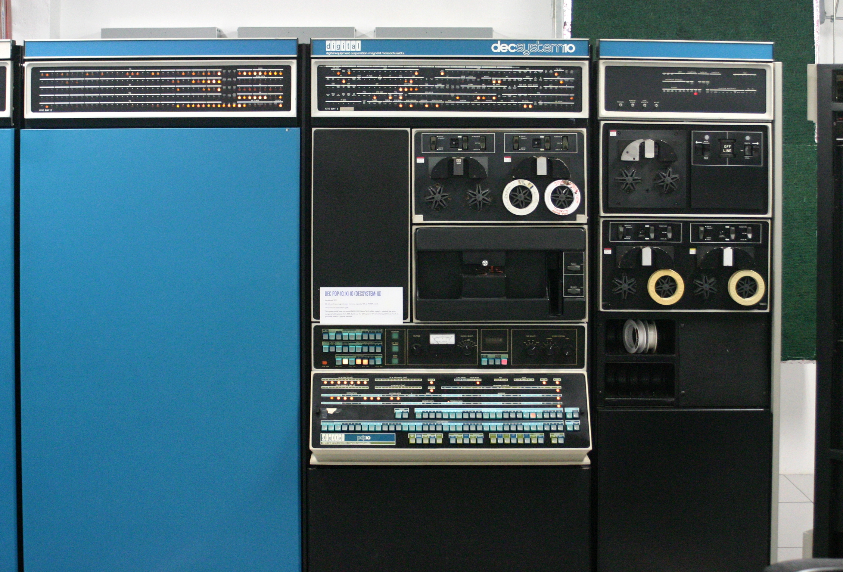 DEC (Digital Equipment Corporation) PDP-10 CPU, model KI-10